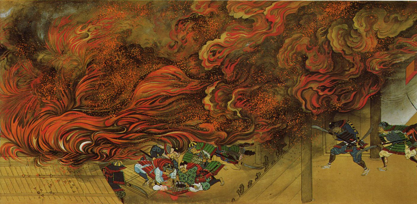 The old picture scrolls of the Ishiyama temple's histories supplemented by Tani Buncho ;the 6th in 7 scrolls,colors on paper 石山寺縁起絵巻 第６巻